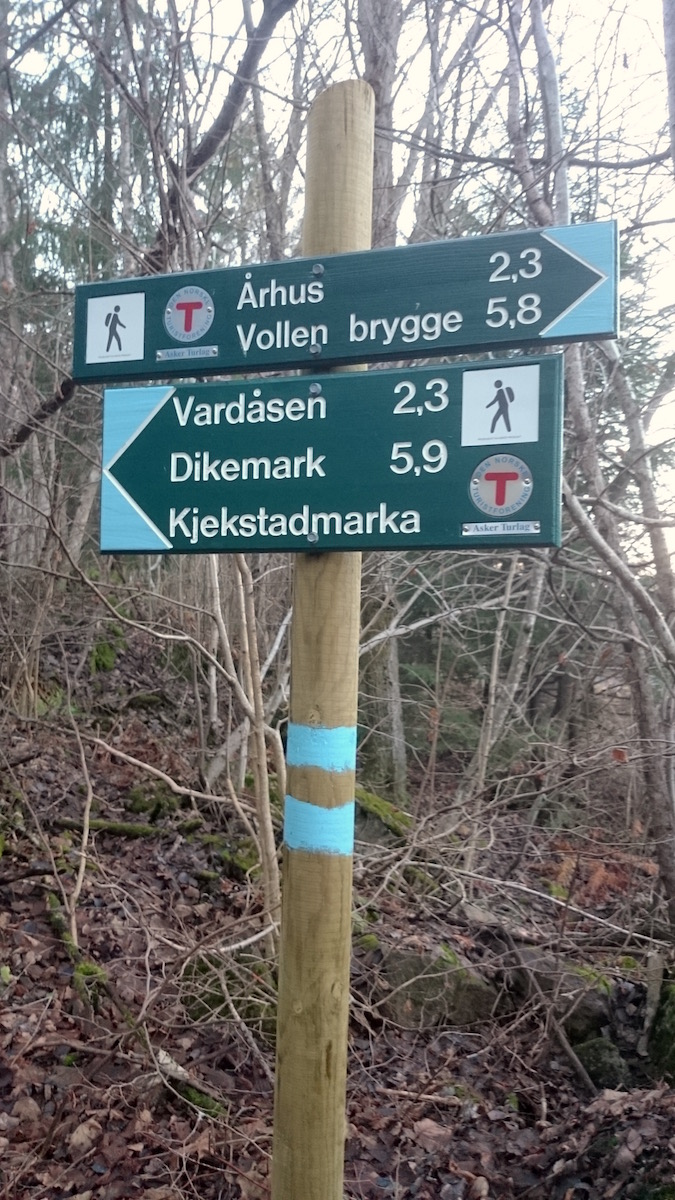 Standard Norwegian signpost for public pathways, located at Gullhella train station in Asker municipalty west of Oslo.